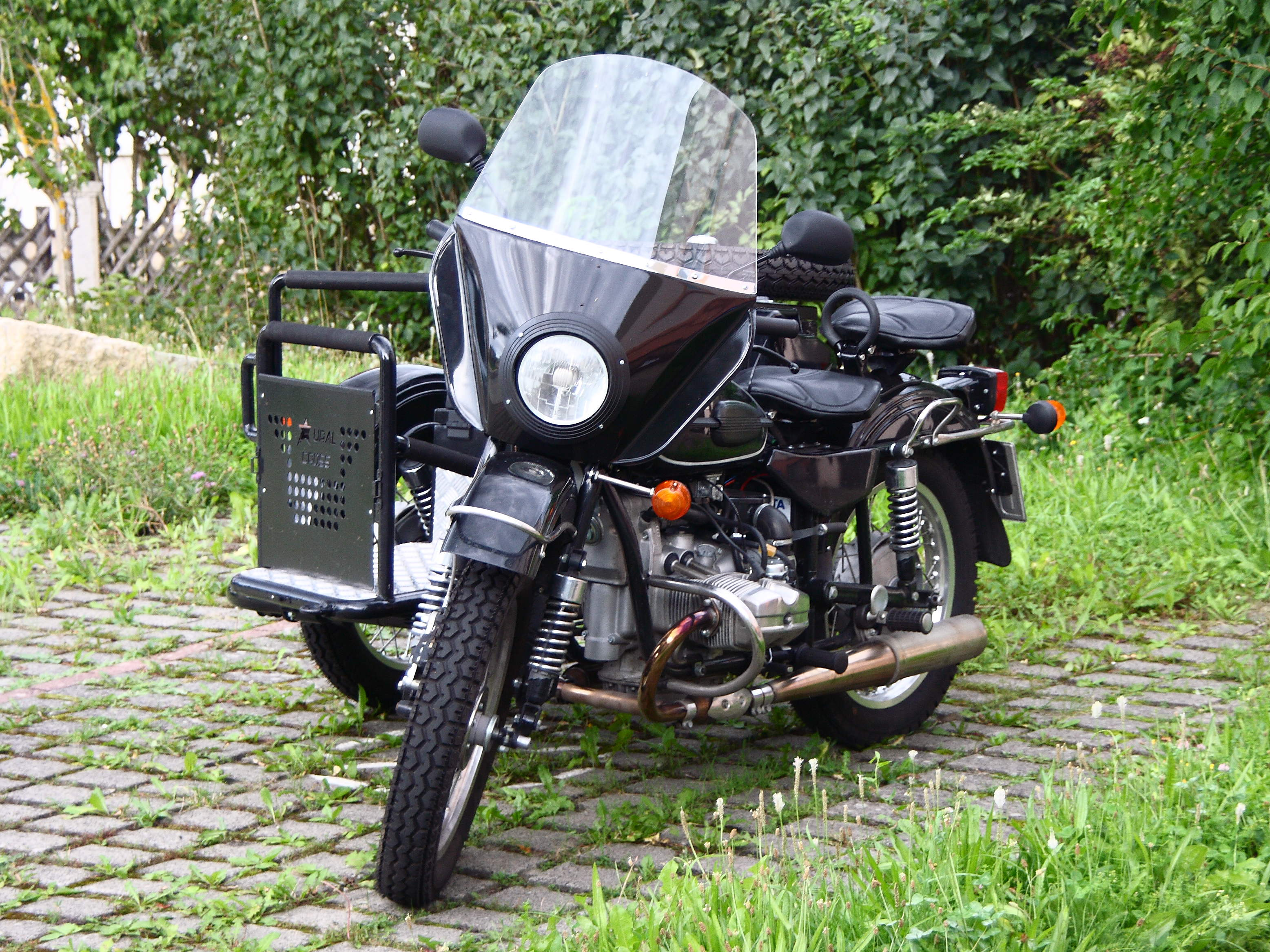 Ural Cross Tourist 2010